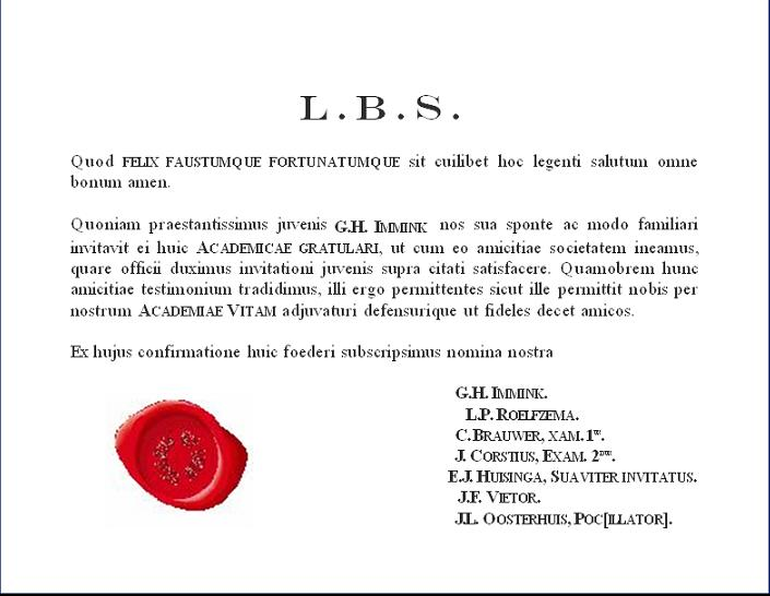 Impression of Diploma of student initiation ritual 1803 in Groningen the Netherlands